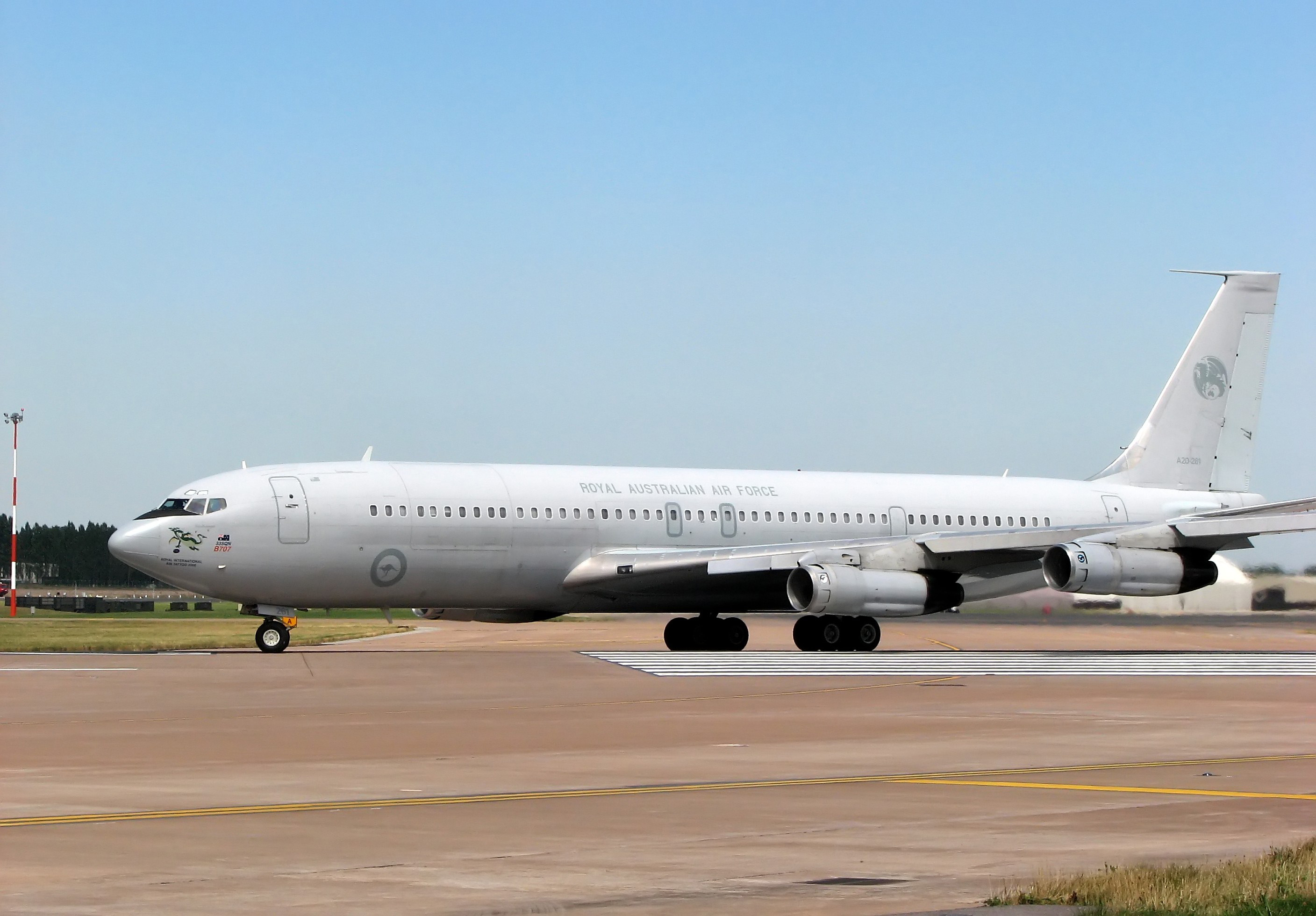 Royal Australian Air Force Boeing 707-368C (code A20-261) at the Royal International Air Tattoo, RAF Fairford, Gloucestershire, England.